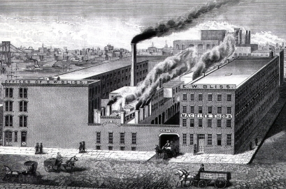 E. W. Bliss Company munitions factory in DUMBO, Brooklyn, New York. Published 1884.